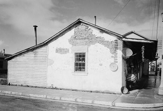 The Juan de Anza House — 19th century adobe residence of Mexican Californio. Third & Franklin Streets, San Juan Bautista — San Benito County, Northern California. On the National Register of Historic Places in Southern California. Image courtesy of the federal HABS—Historic American Buildings Survey of California (cropped).